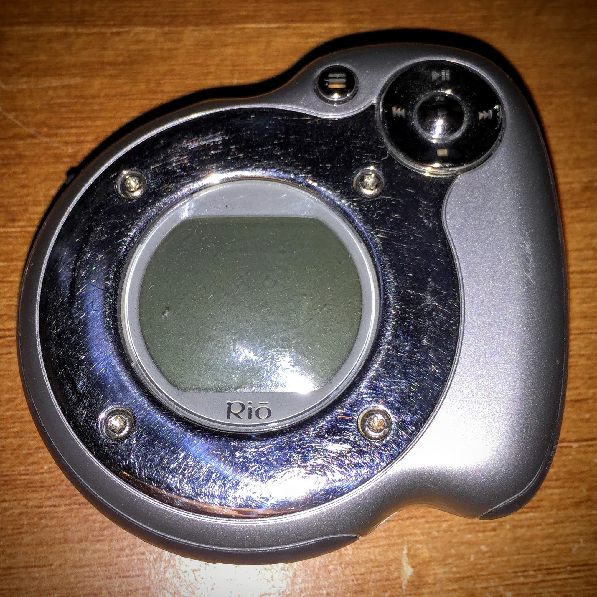 The Rio Forge digital audio player by Rio with 256 MB built in storage and SD Card expansion.